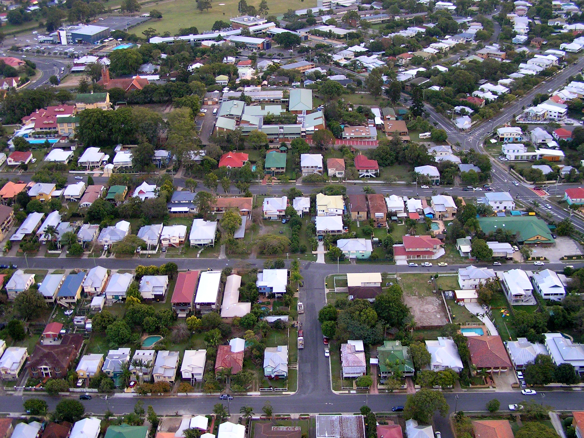 Brisbane. Photo taken from a hot air balloon.